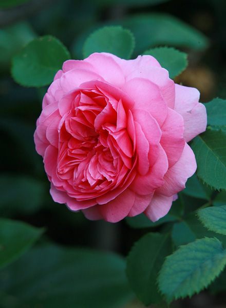 Rosa 'Princess Alexandra of Kent'